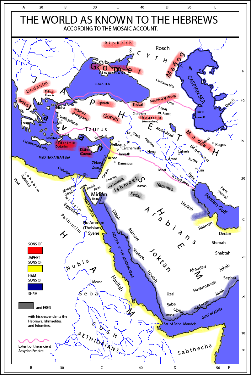 The world as known to the Hebrews. A map from "Historical Textbook and Atlas of Biblical Geography (1854)" by Lyman Coleman